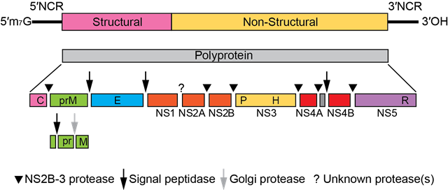 Flavivirus genome with structural and nonstructural coding units